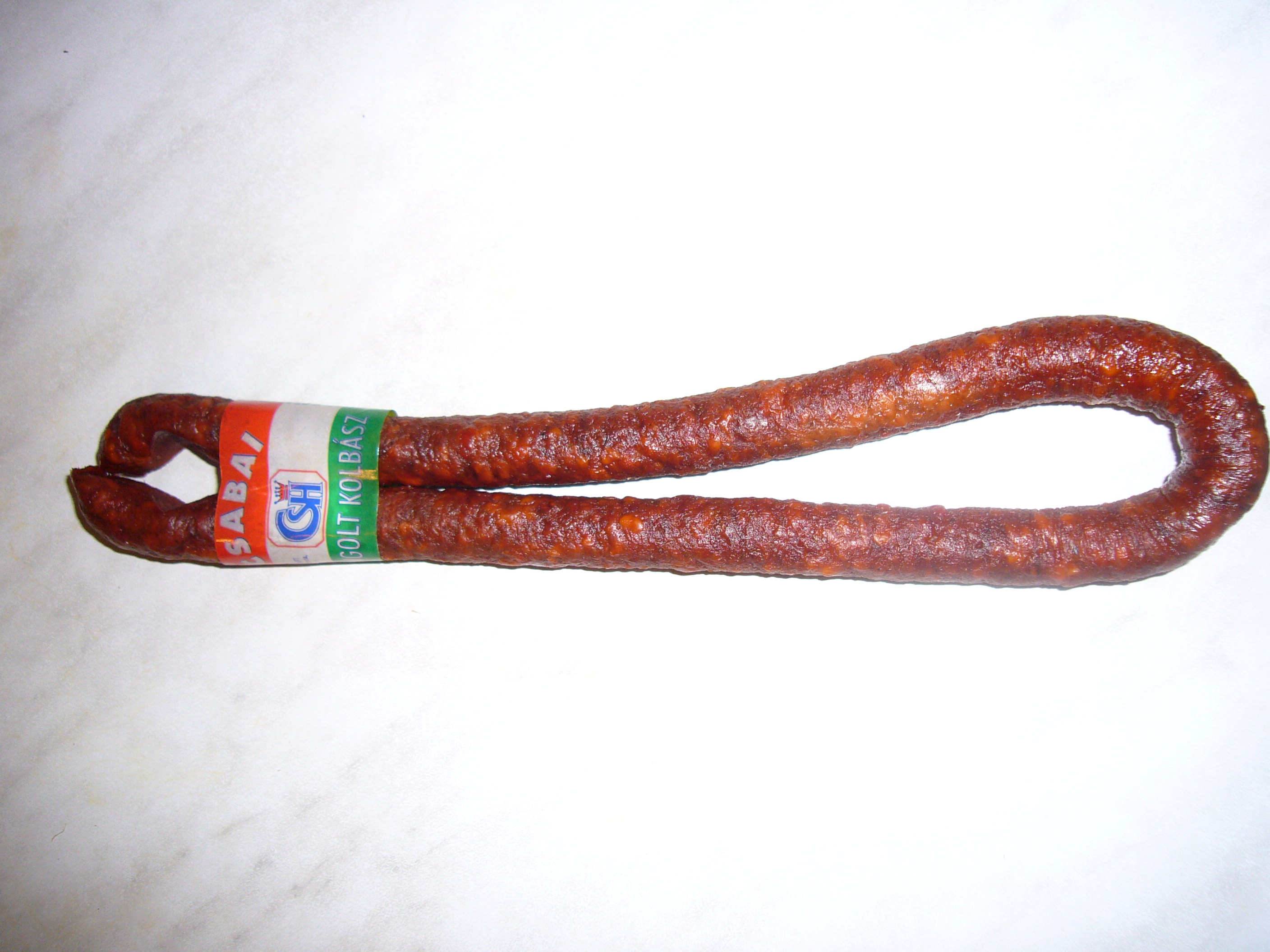 Typical sausage - known as "Hungarian Csabai" or in czech "Čabajka"